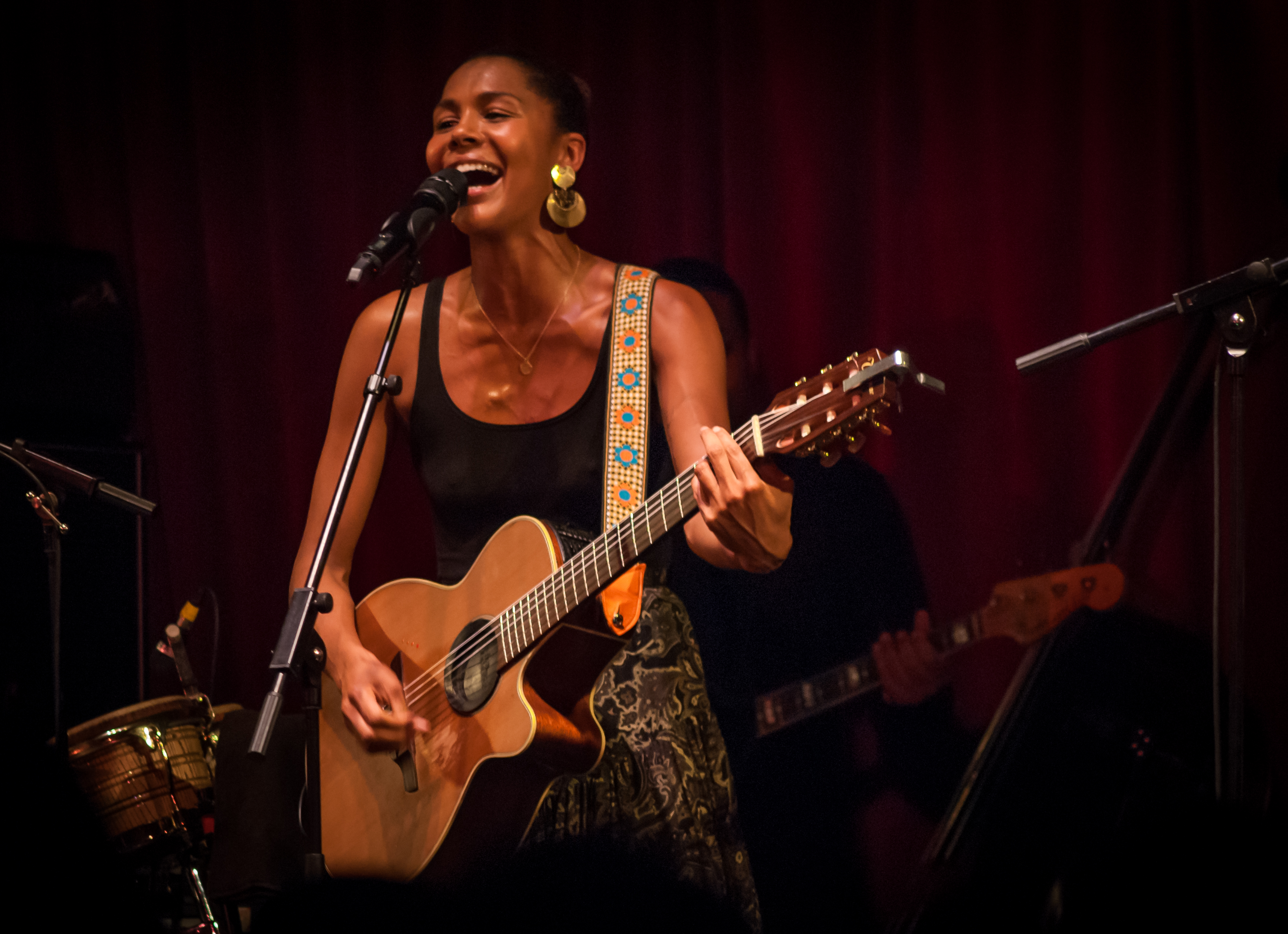 Ayo live at Bush Hall in London on Wednesday 2nd April 2014